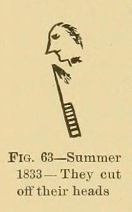 A Picture from the Dohasan Kiowa Winter Count. Osage warriors attacked the Kiowa Indians in camp near Wichita Mountains, Oklahoma, and the head of the Kiowa victims were cut off and placed in kettles.